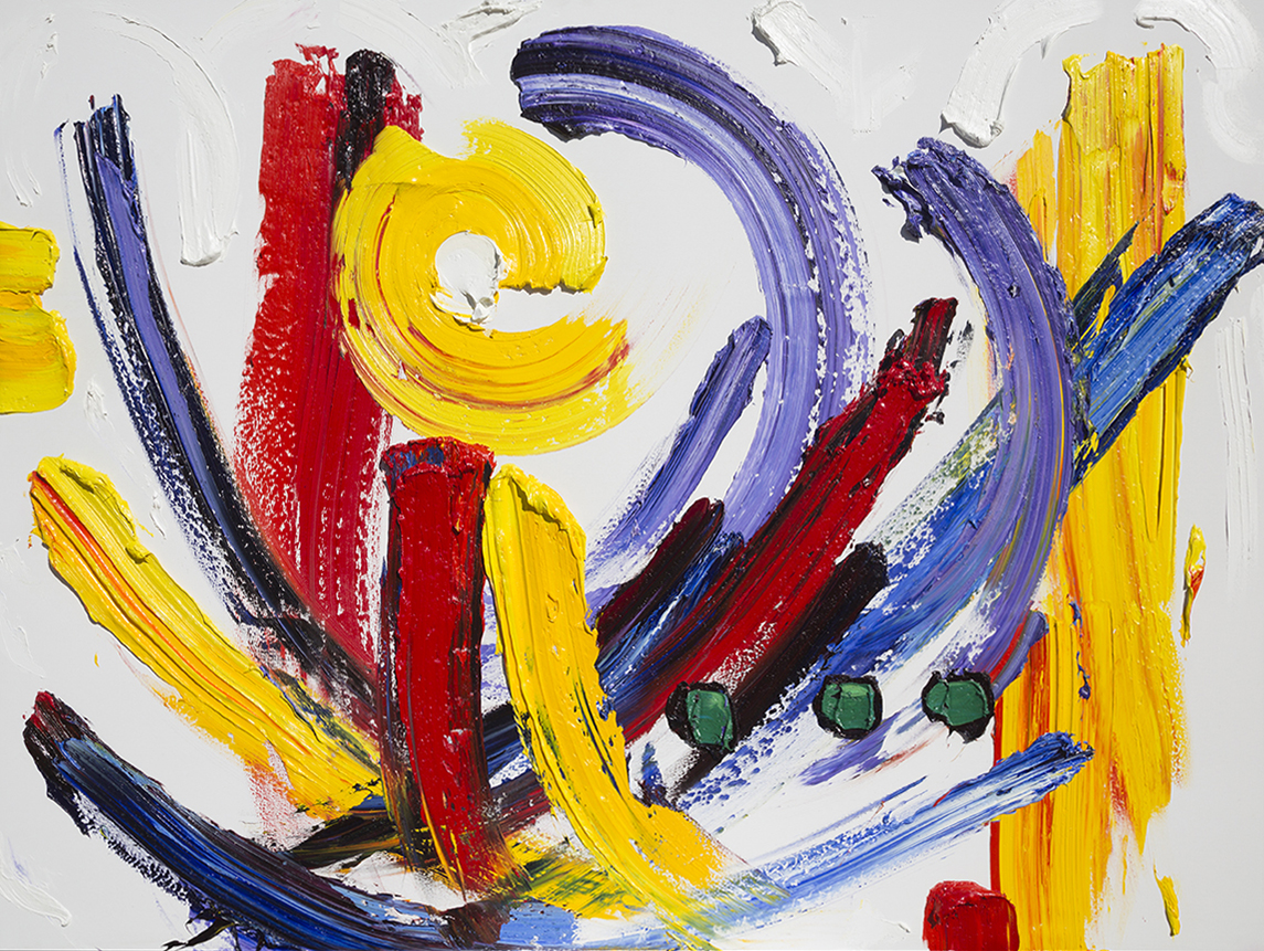 3D Oil Painting by JD Miller "Infinite Power" 72 x 96 inches